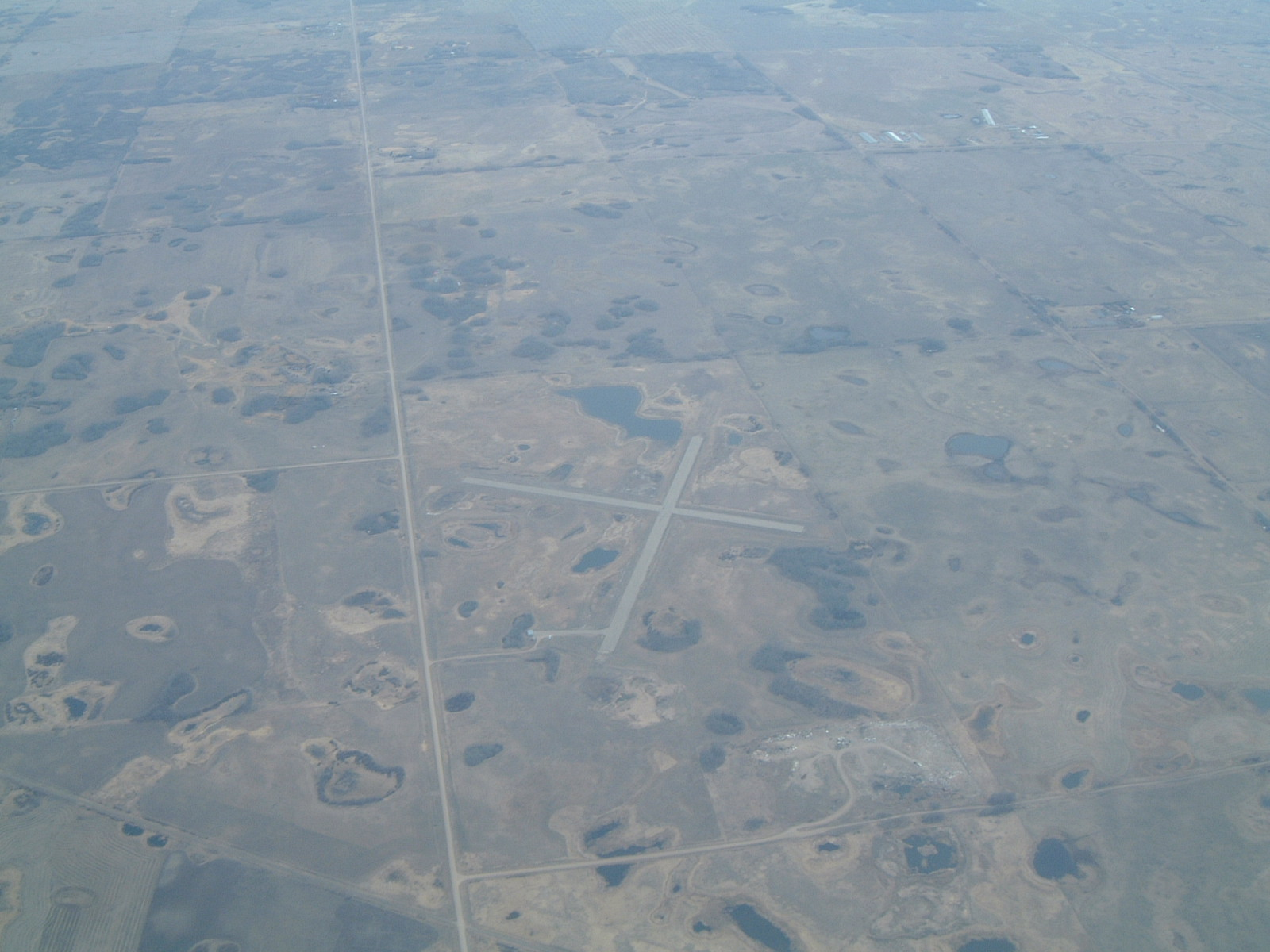 Melville Municipal Airport. Taken from 6500 feet ASL.